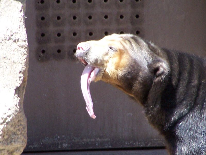 Sun bear, Chicago Trip - Lincoln Park